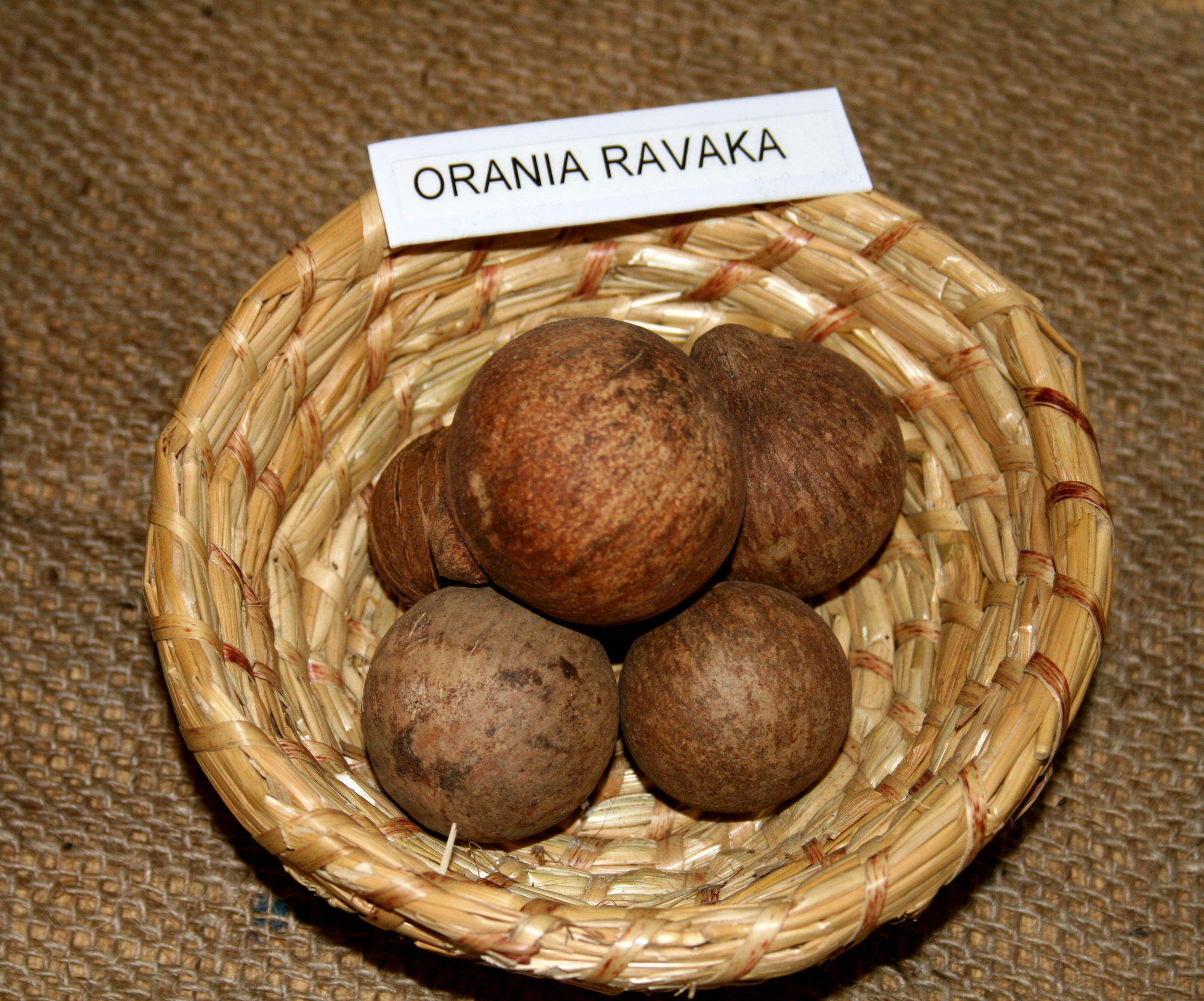 Seeds of palm Orania ravaka semena palmy Orania ravaka Prague Botanic garden Date=January 2008 Author= Karelj